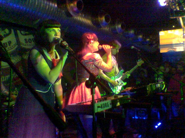 The Chalets in Madrid